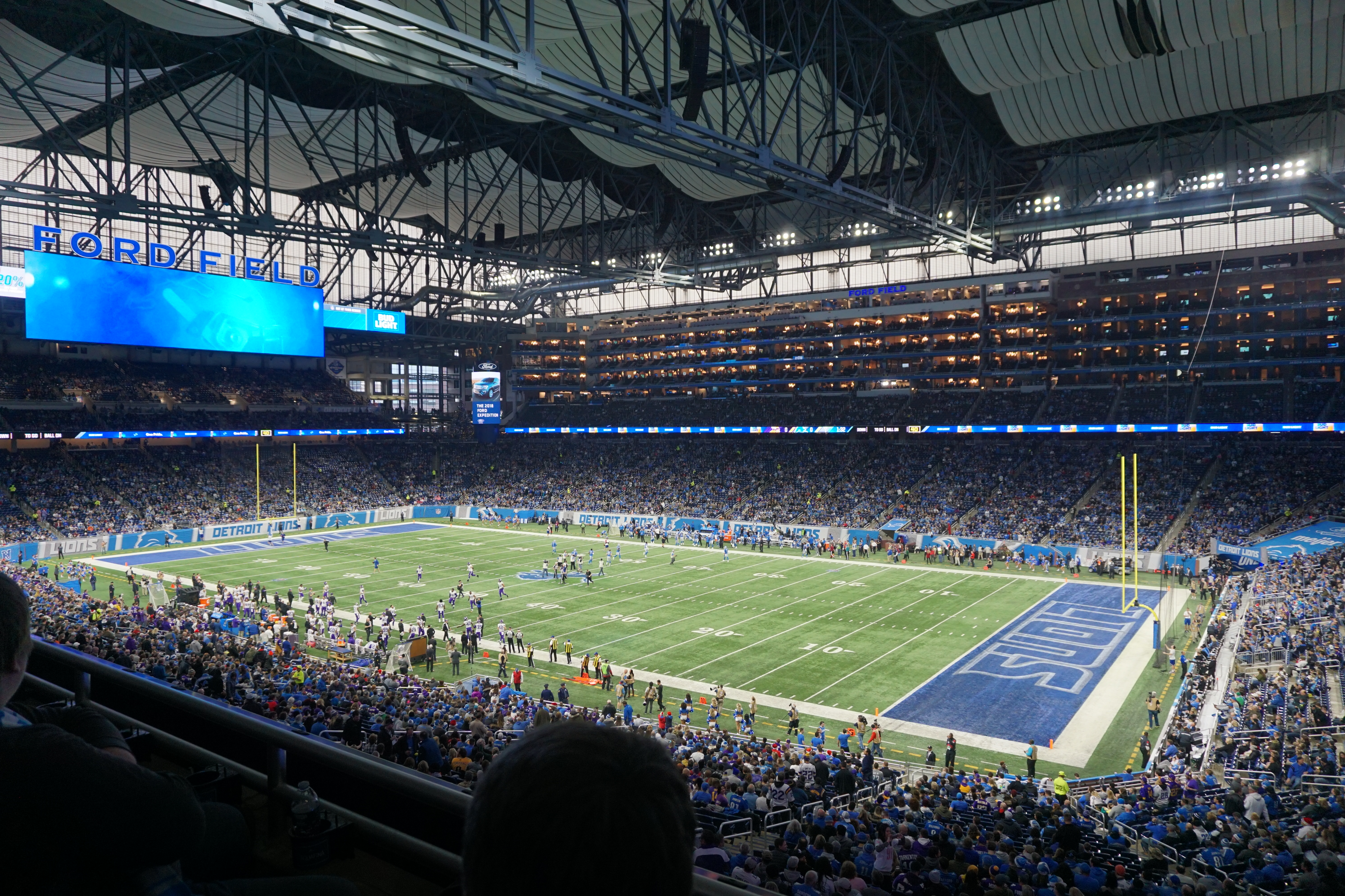 The stadium before the Minnesota Vikings vs. Detroit Lions game at Ford Field in Detroit, Michigan (United States). Minnesota won 27–9.